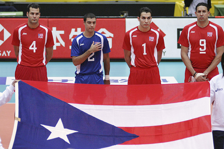 Victor Rivera (4), Gregory Berríos (2), José Rivera (1) and Luís Rodríguez (9) in front of their National Flag at the FIVB Volleyball Championships at Japan 2006.